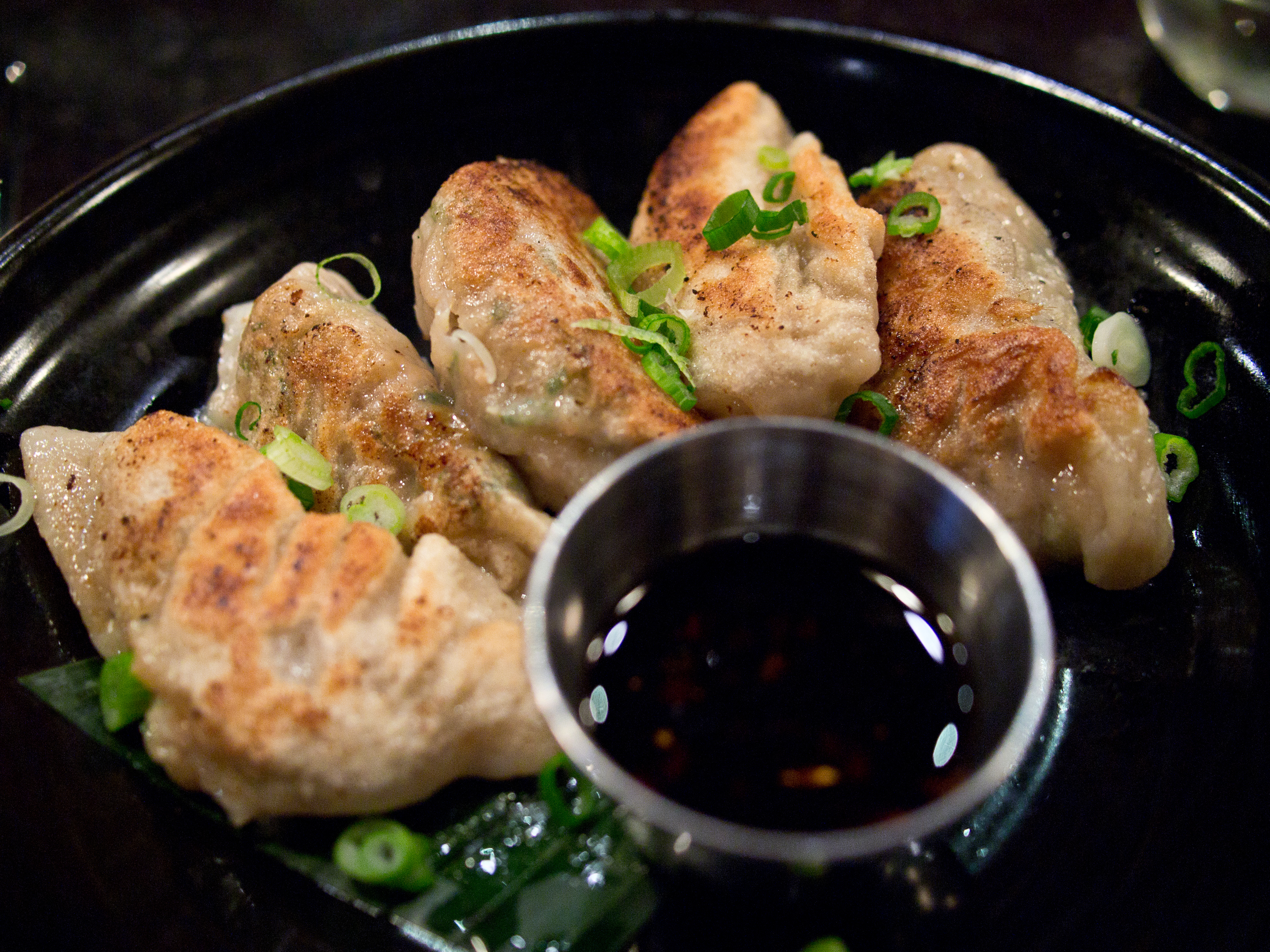 Traditional pork and cabbage Dumplings